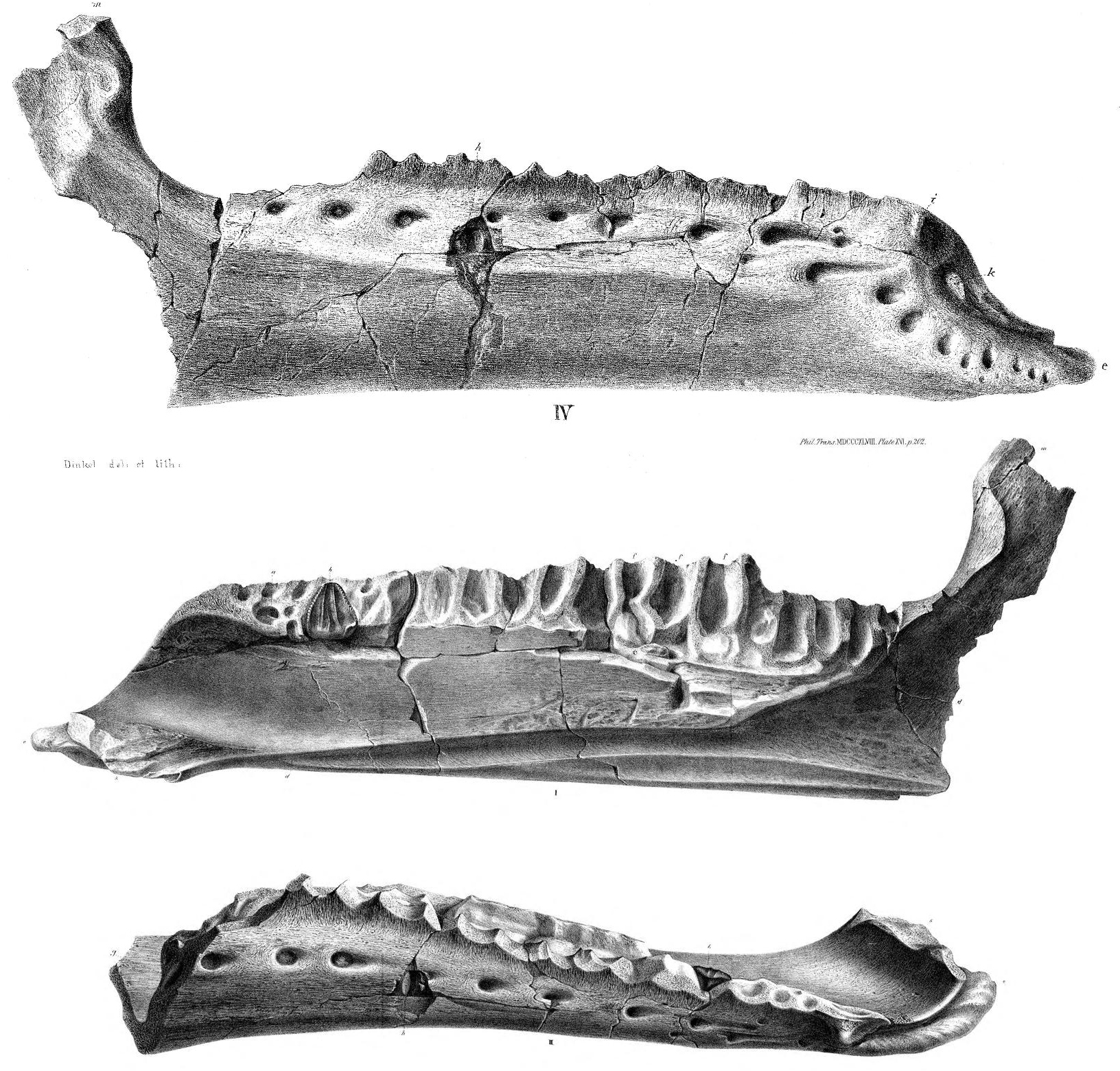 Kukufeldia holotype in multiple views.